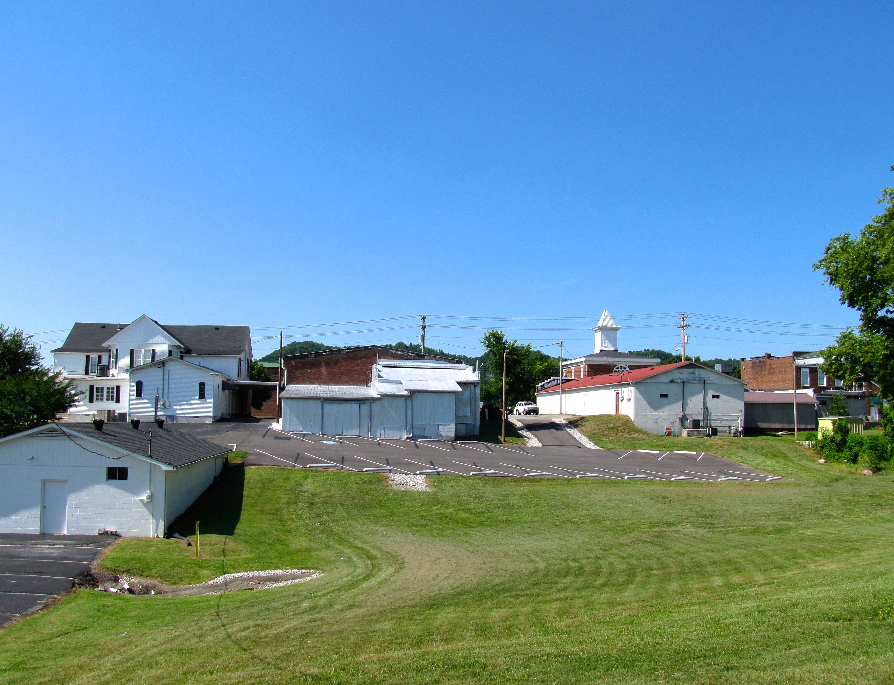 Celina, Tennessee, United States, looking northeast from Williamson Street.